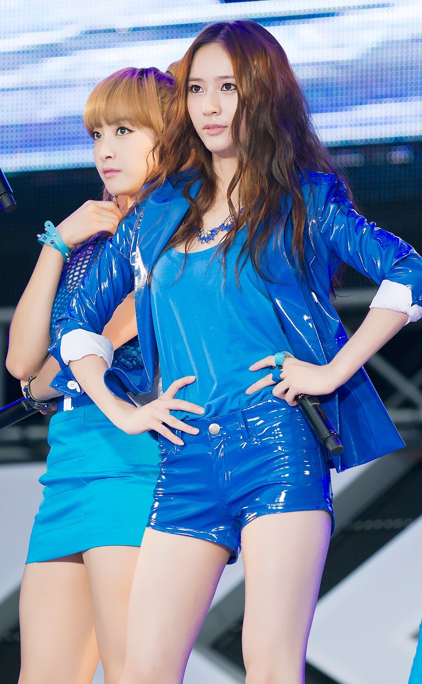 Victoria Song and Krystal Jung at the SM Town Live World Tour III in Seoul on August 18, 2012.